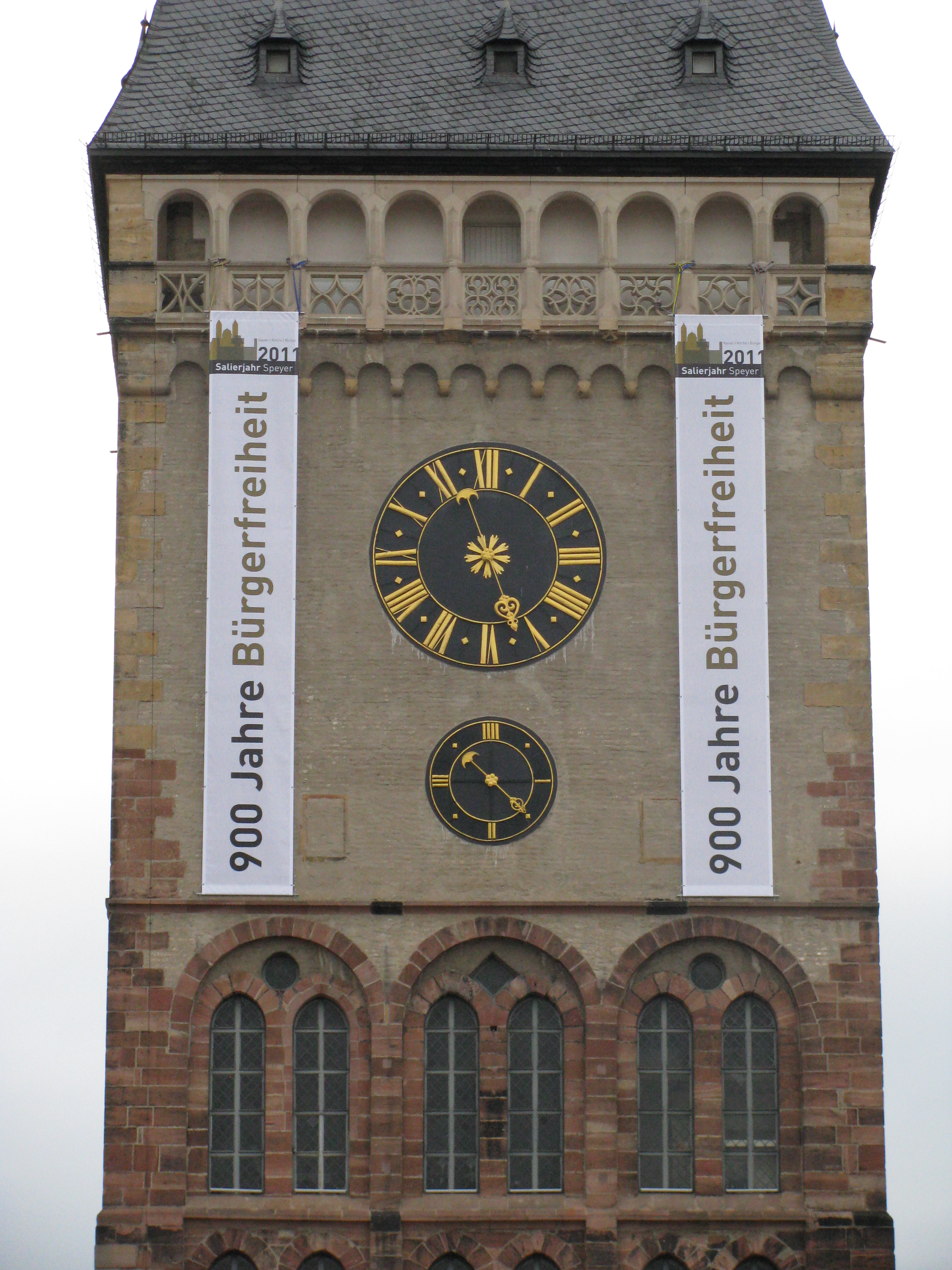 Speyer celebrating 900 years of civic liberties in the year 2011 with flags hanging from the old town gate "Altpörtel".